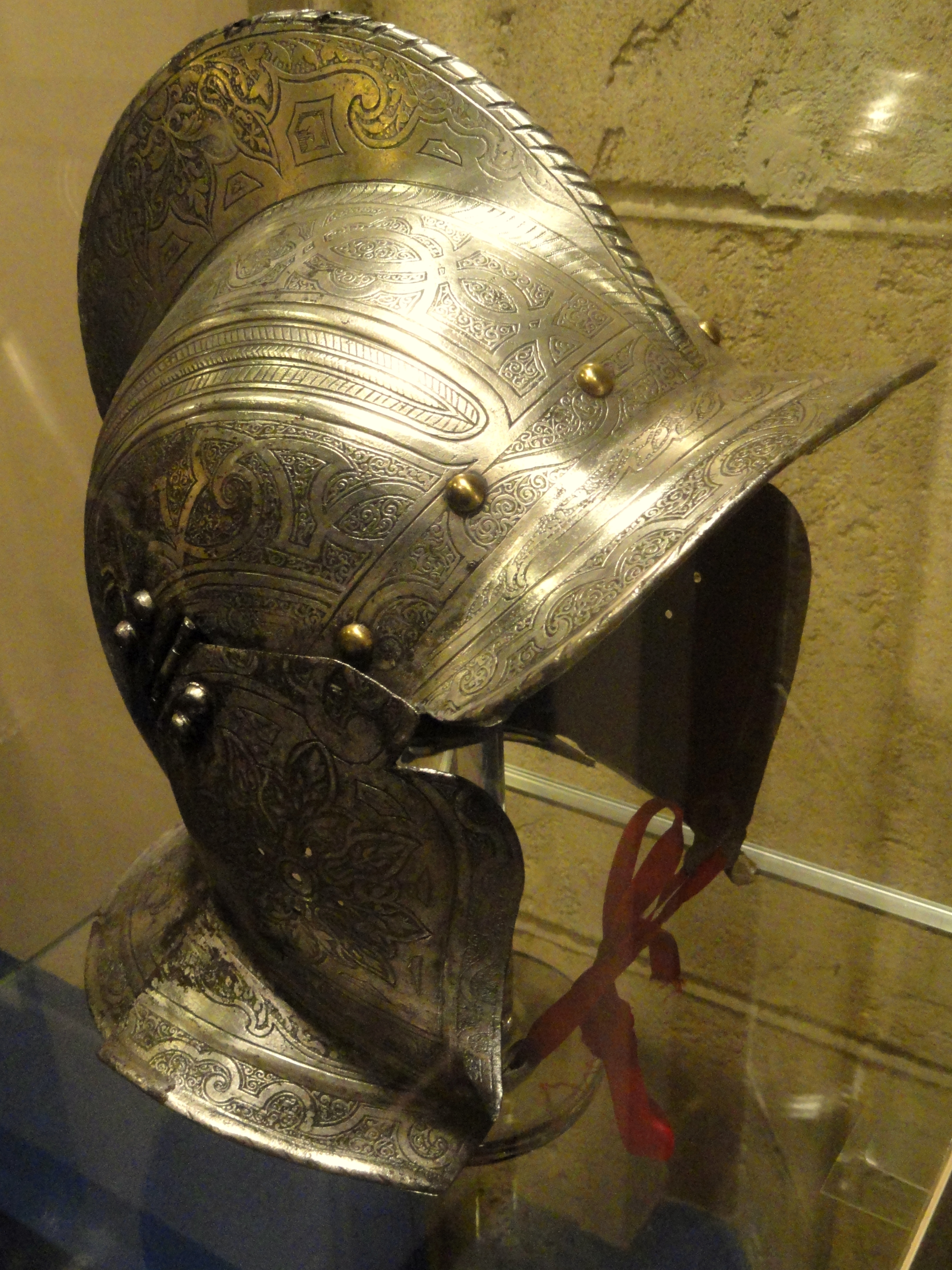 Exhibit in the Higgins Armory Museum, 100 Barber Avenue, Worcester, Massachusetts, USA. The museum permitted photography without any restriction, both in writing and when I asked verbally.